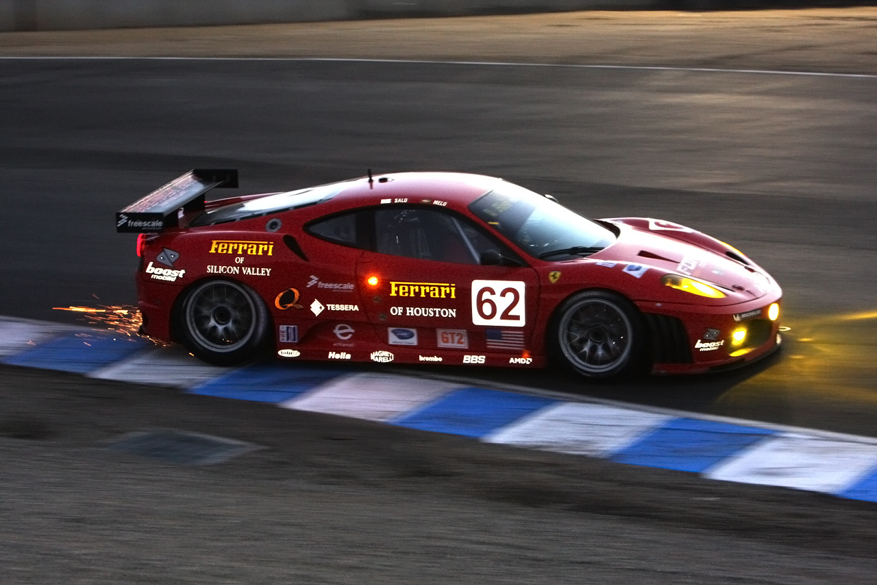 Risi Competizione's Ferrari F430GT at the 2007 Monterey Sports Car Championships